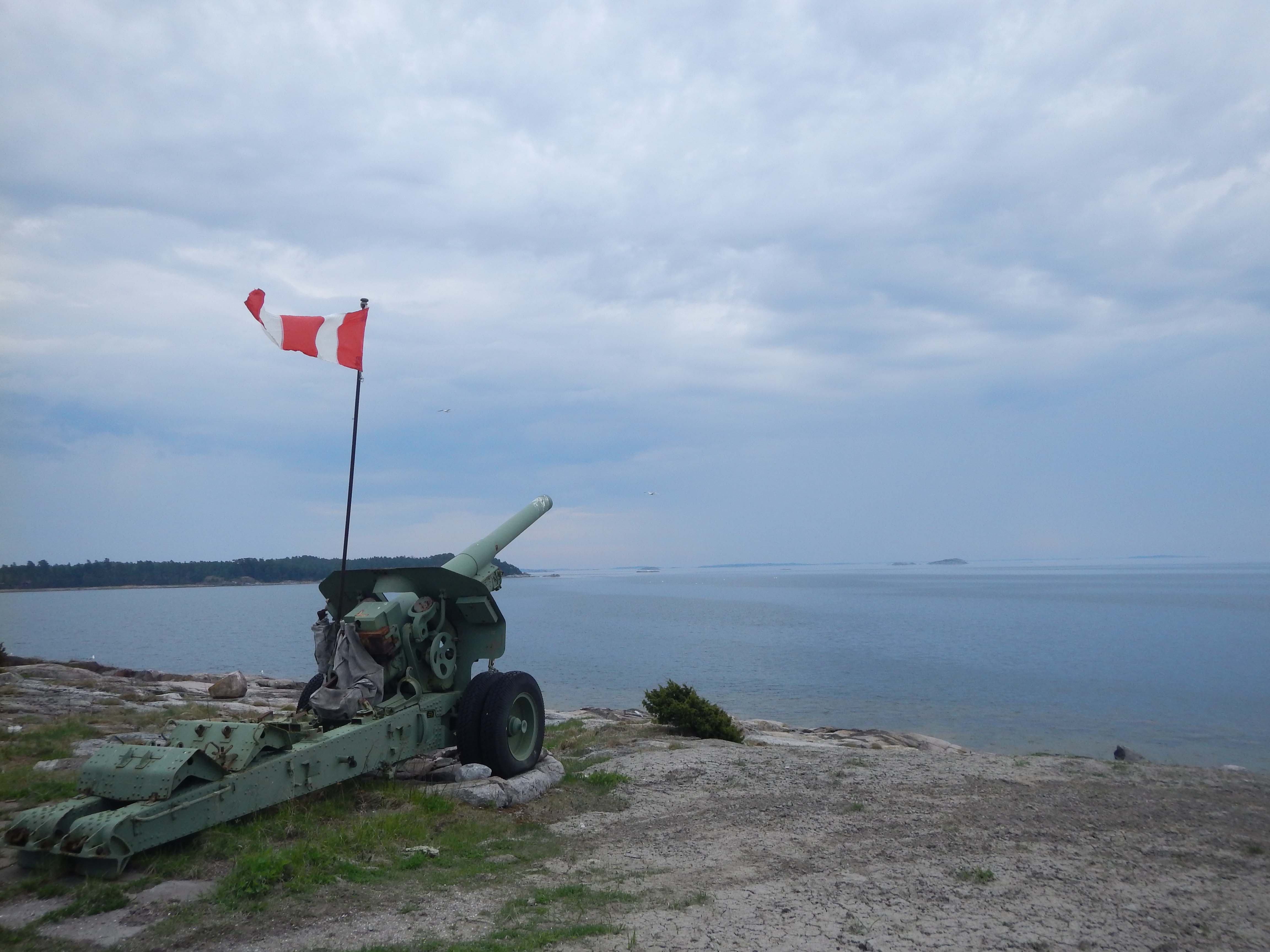 Close-up of artillery piece